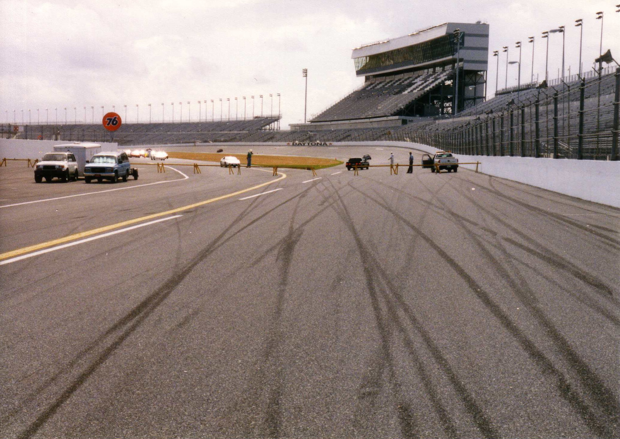 Daytona International Speedway in Florida. Some skidmarks on the racetrack, as well as view of grandstand in the turn.